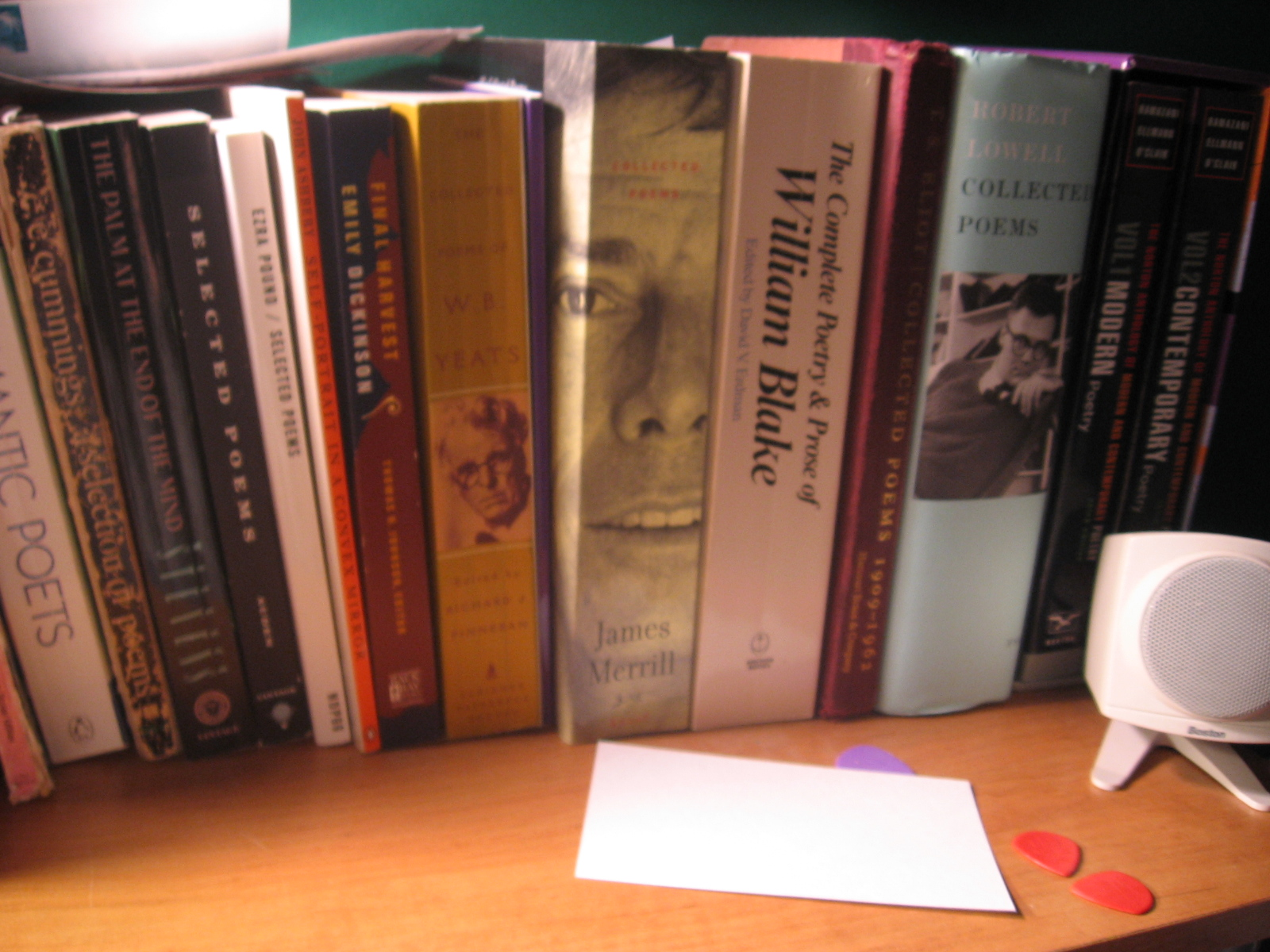 The Binding of the Collected James Merrill poetry